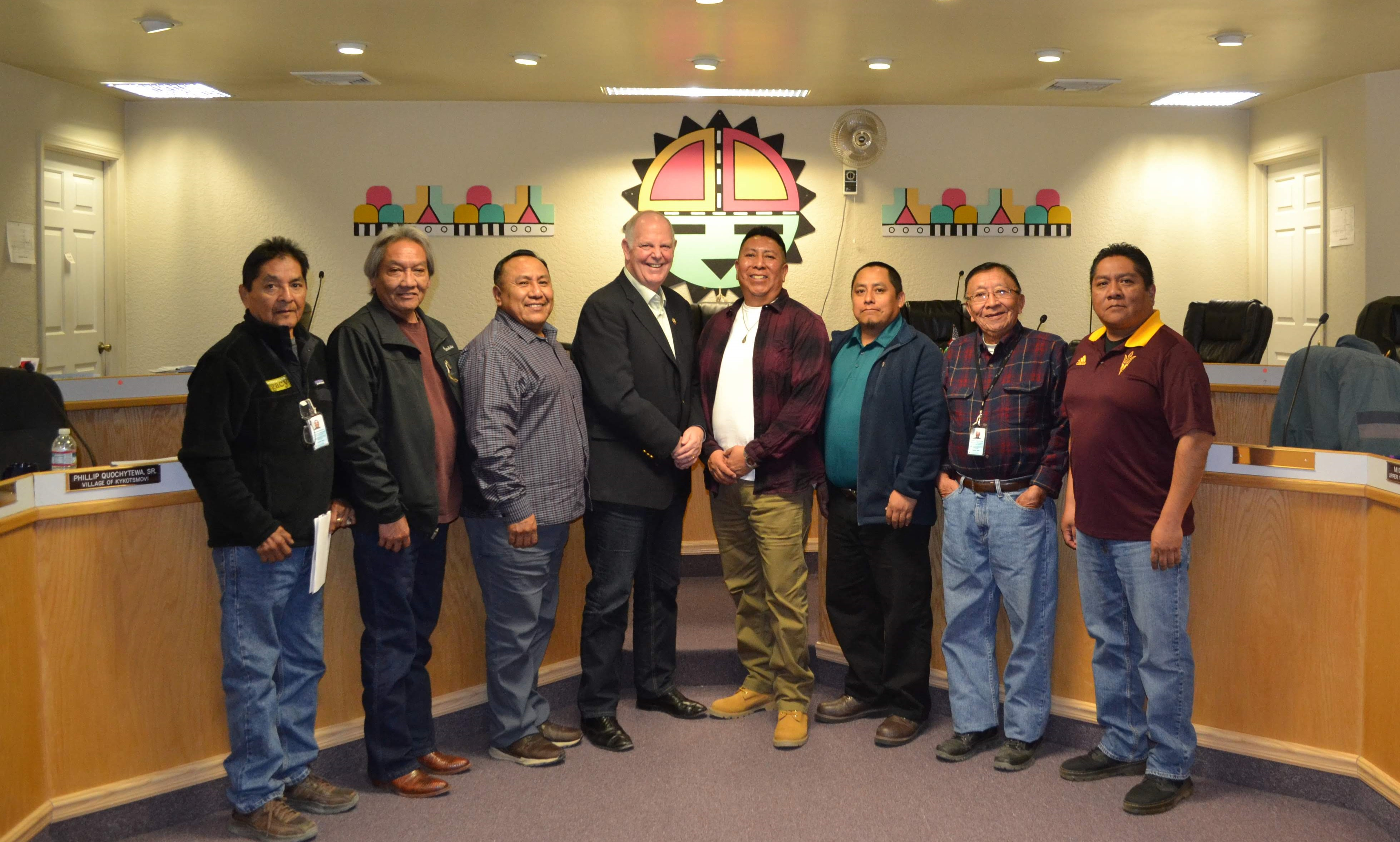 Great week of meetings across tribal communities in #AZ01. Thank you to Hopi leadership for having me and sitting down to discuss issues of importance and how we can work together to find solutions.